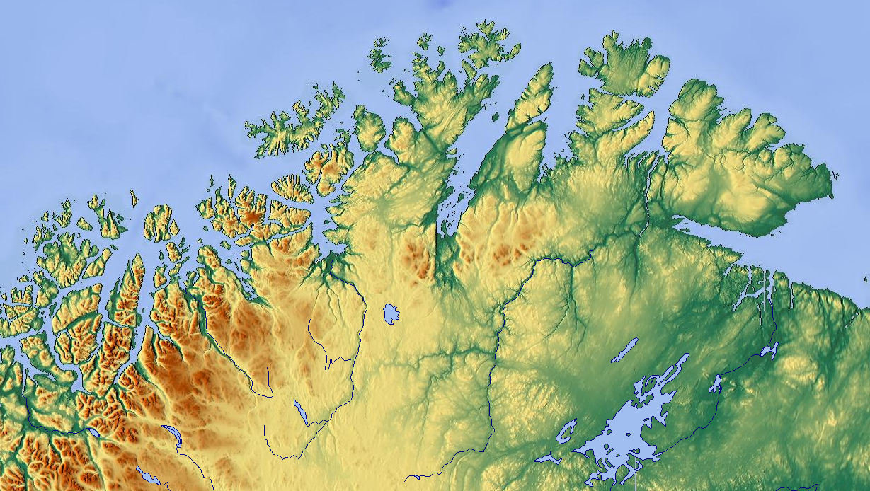 Map of Northern Norway Geographic limits of the map: N: 71.283° S: 68.677° W: 18.127° E: 31.63°